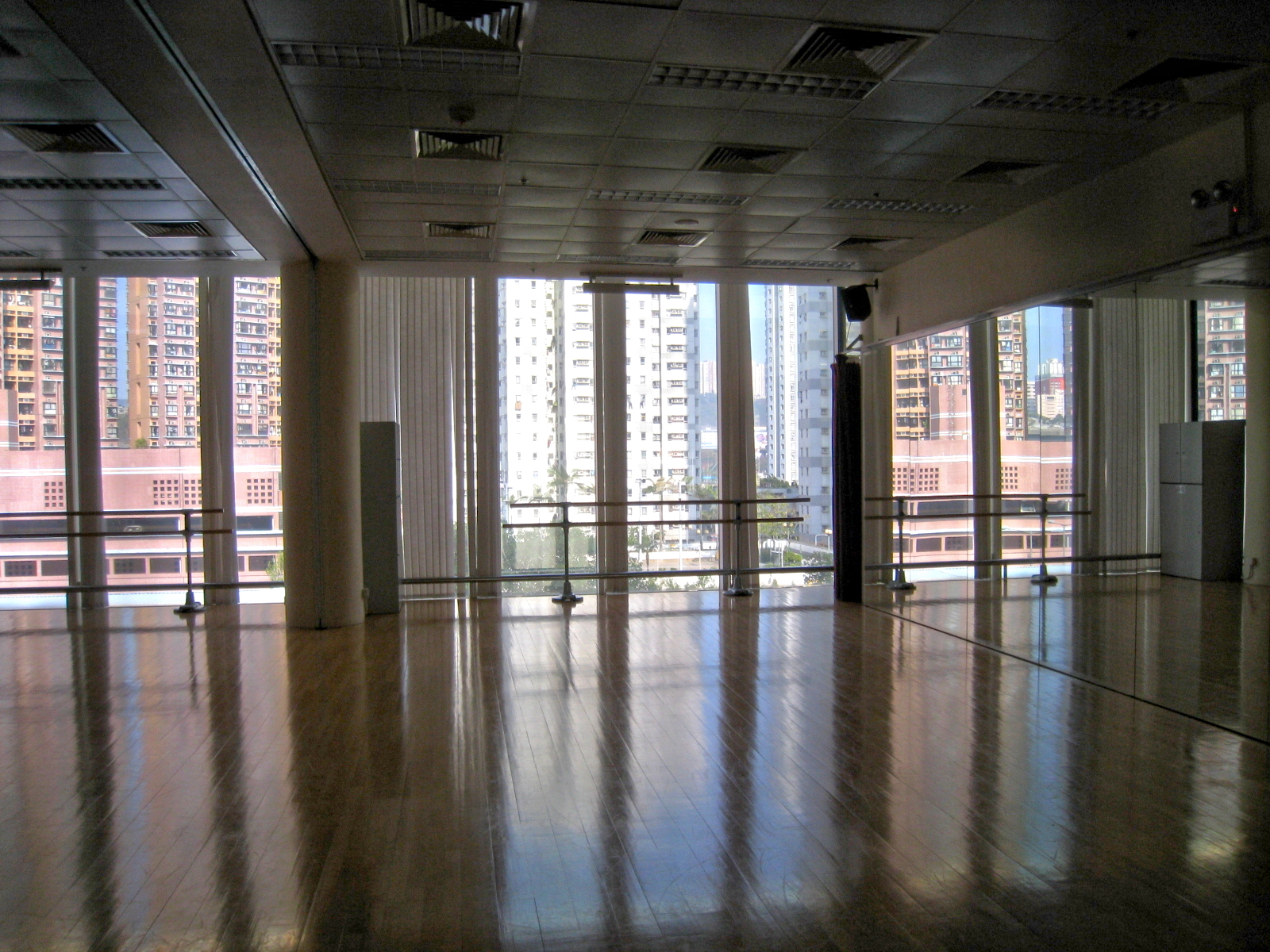 Tsing Yi Municipal Services Building DanceRoom